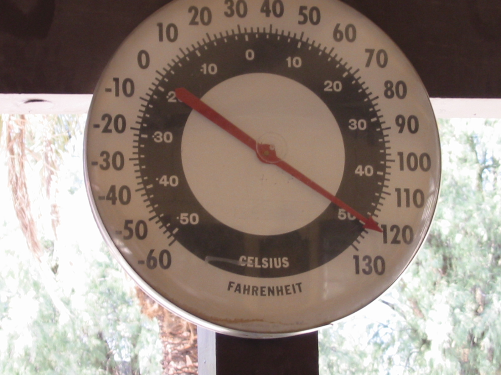 A thermometer at the Furnace Creek Ranch, Death Valley NP, California on a typical day in july